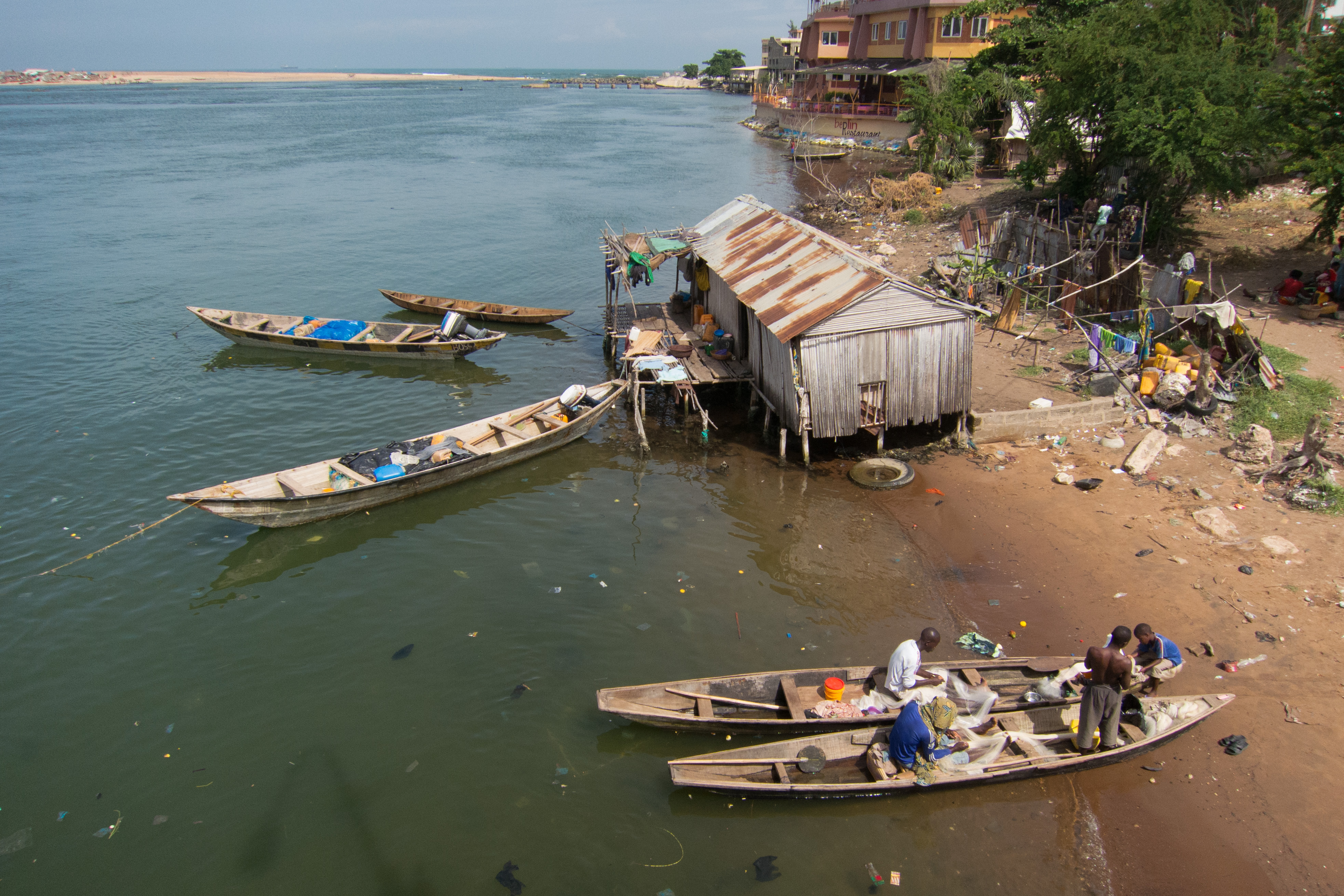 Fishermen repair their nets in the lagoon in Cotonou, Benin. Cotonou is the economic capital of the West African country of Benin and is located on the coastal strip between Lake Nokoué and the Atlantic Ocean. The city is cut in two by a canal, the lagoon of Cotonou, which connects the Lake to the Atlantic.